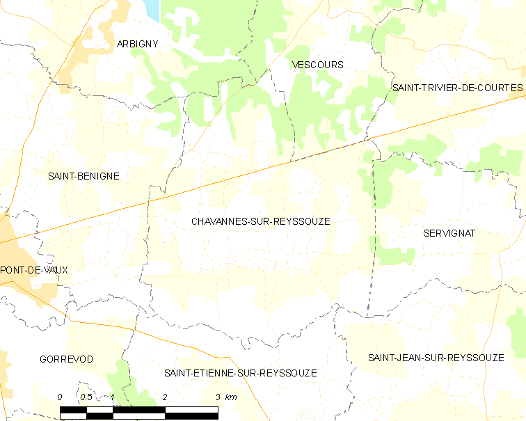 Map of French commune: Chavannes-sur-Reyssouze Map commune FR insee code 01094.png